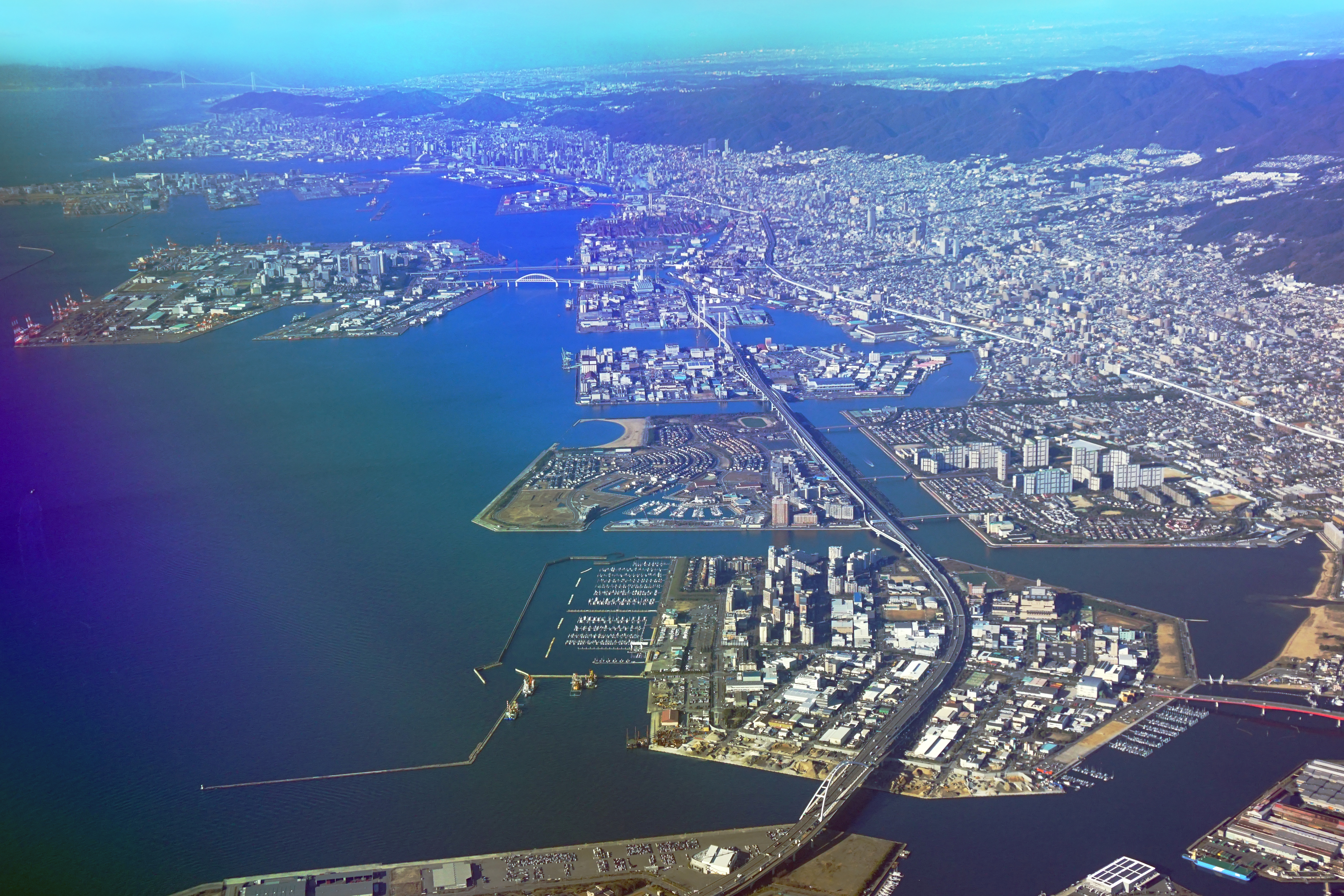 Hanshin Port from the sky in Nishinomiya City, Hyogo prefecture, Japan